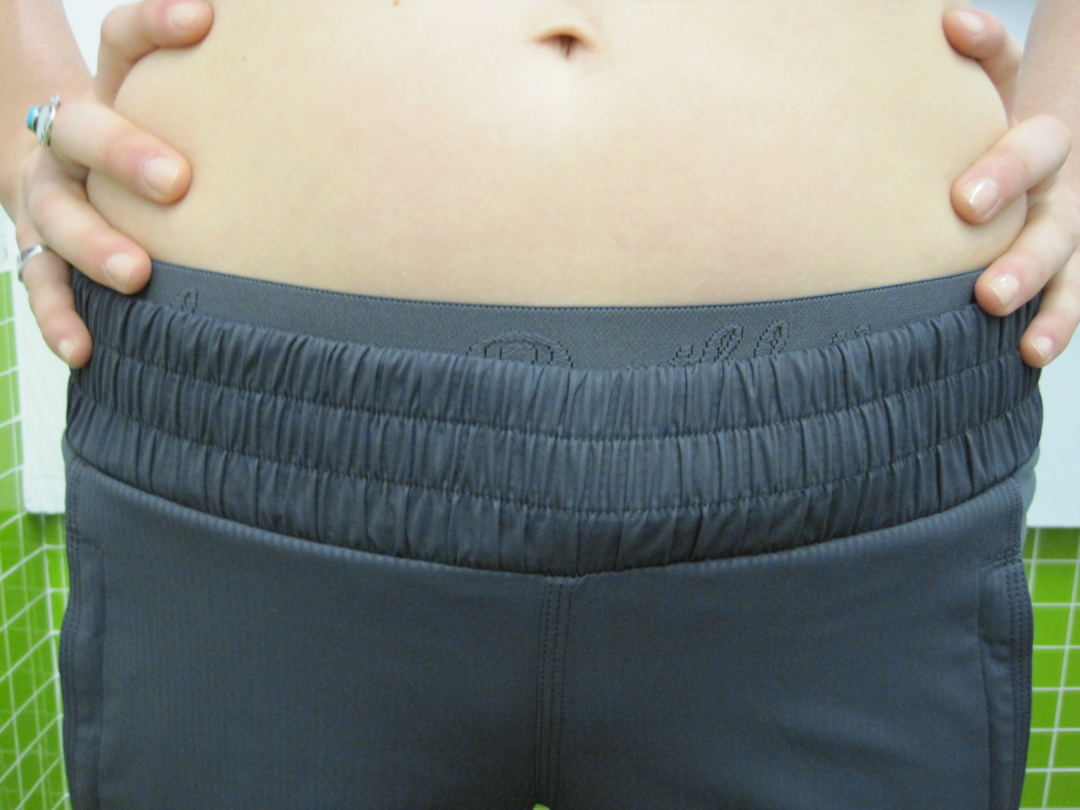 Double layer waistband can be rolled down for a lower rise look.